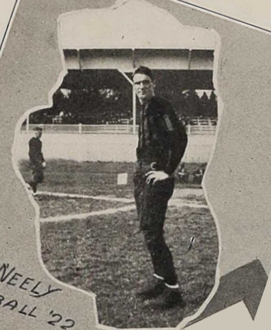 Jess Neely, captain of 1922 Vanderbilt Commodore football team.